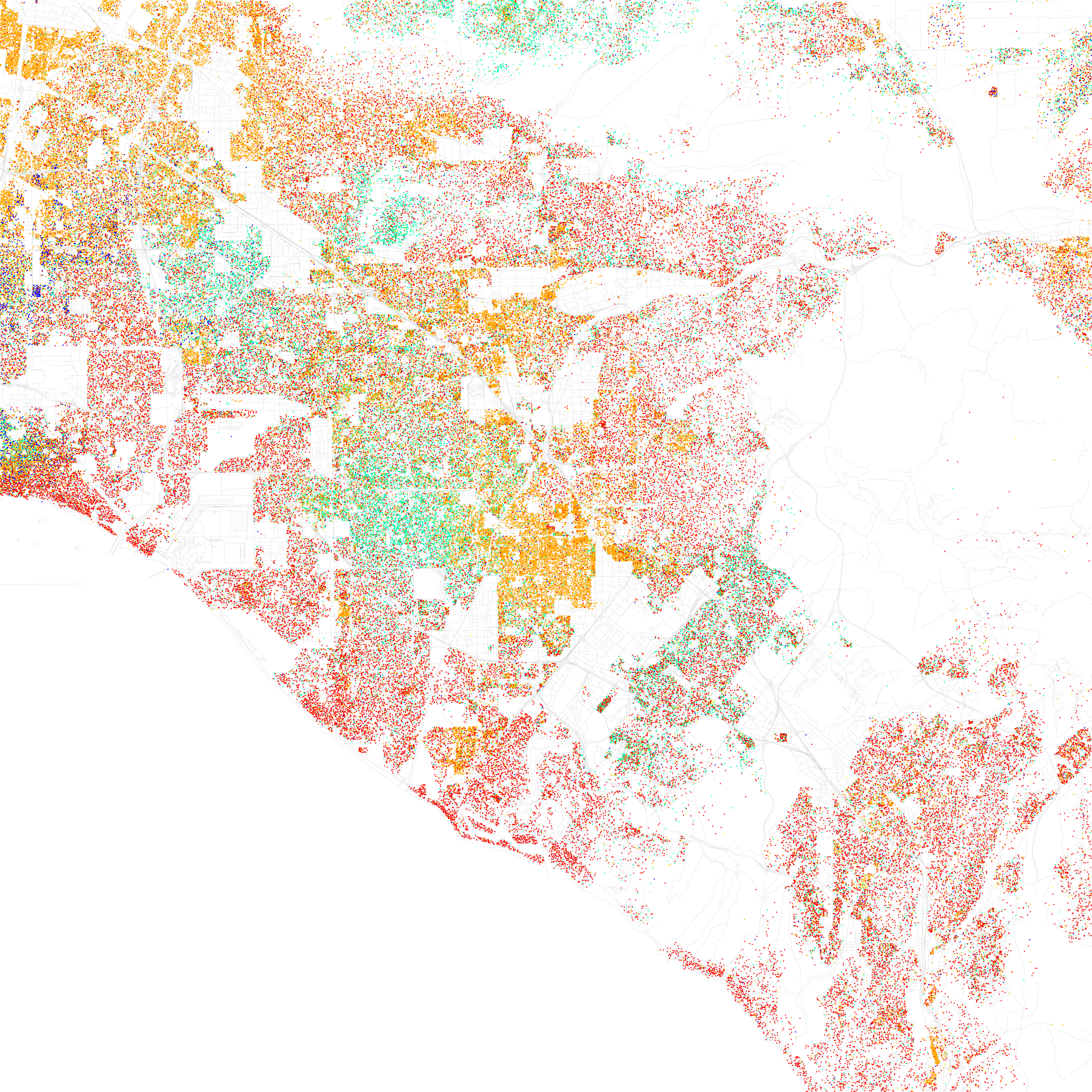 Maps of racial and ethnic divisions in US cities, inspired by Bill Rankin's map of Chicago, updated for Census 2010. Red is White, Blue is Black, Green is Asian, Orange is Hispanic, Yellow is Other, and each dot is 25 residents. Data from Census 2010. Base map © OpenStreetMap, CC-BY-SA